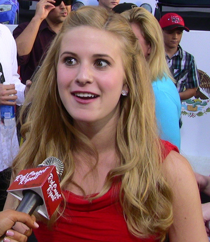 Caroline Sunshine at the world premiere for Cars 2 in Hollywood Heights, Los Angeles, CA in June